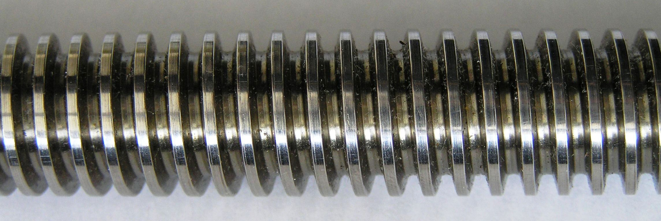 Close-up view of a male Acme thread. 5/8-8 right-hand single-start ACME-2C (self-centering). Photo by Yannick Trottier, 2007